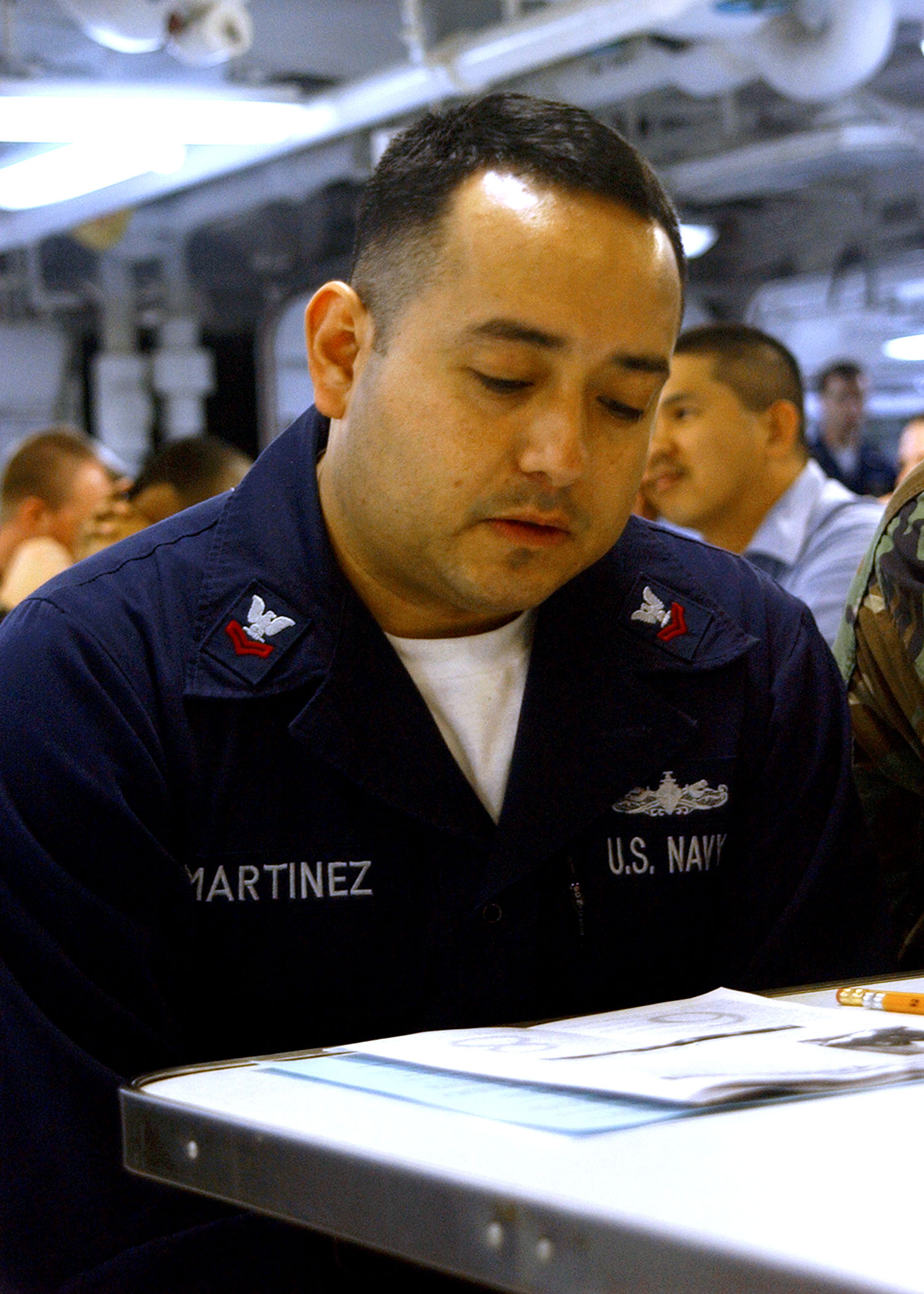 Atlantic Ocean (Mar. 4, 2004) – Personnelman 2nd Class Jose Martinez reviews a questionnaire prior to taking the semiannual First Class Petty Officer (E-6) advancement examination for eligible Sailors aboard the aircraft carrier USS Harry S. Truman (CVN 75). Harry S. Truman is currently undergoing carrier qualifications and flight deck certification. U.S. Navy photo by Photographer's Mate 3rd Class Jose L. Barrientos Jr. (RELEASED)